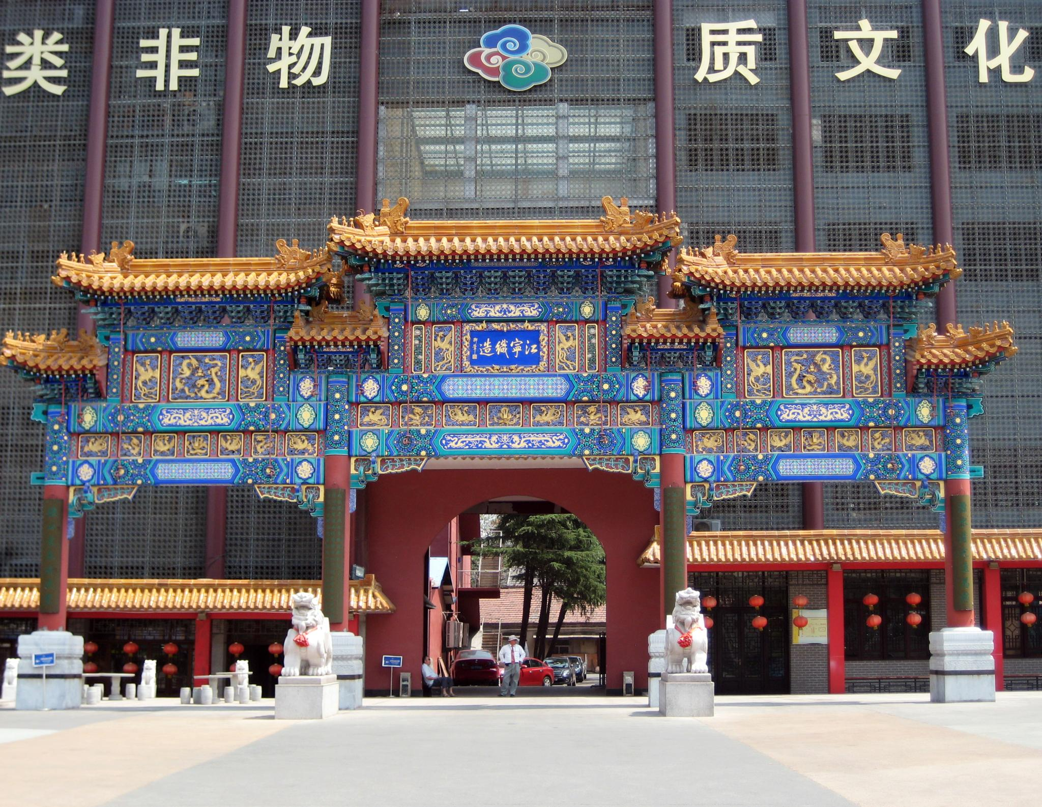 Home of brocade, a very complex silk fabric weaving technique.